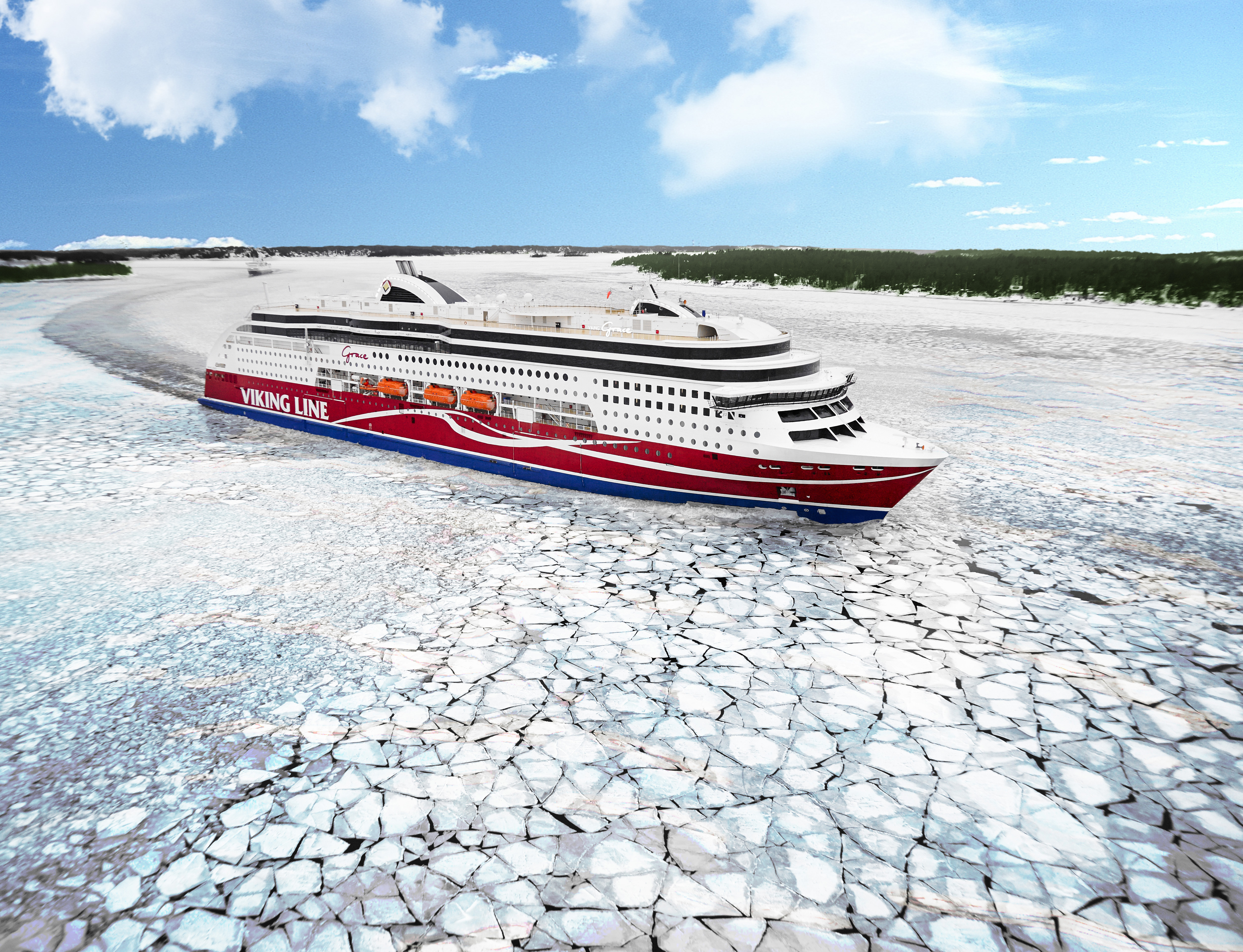 MS Viking Grace of Viking Line.